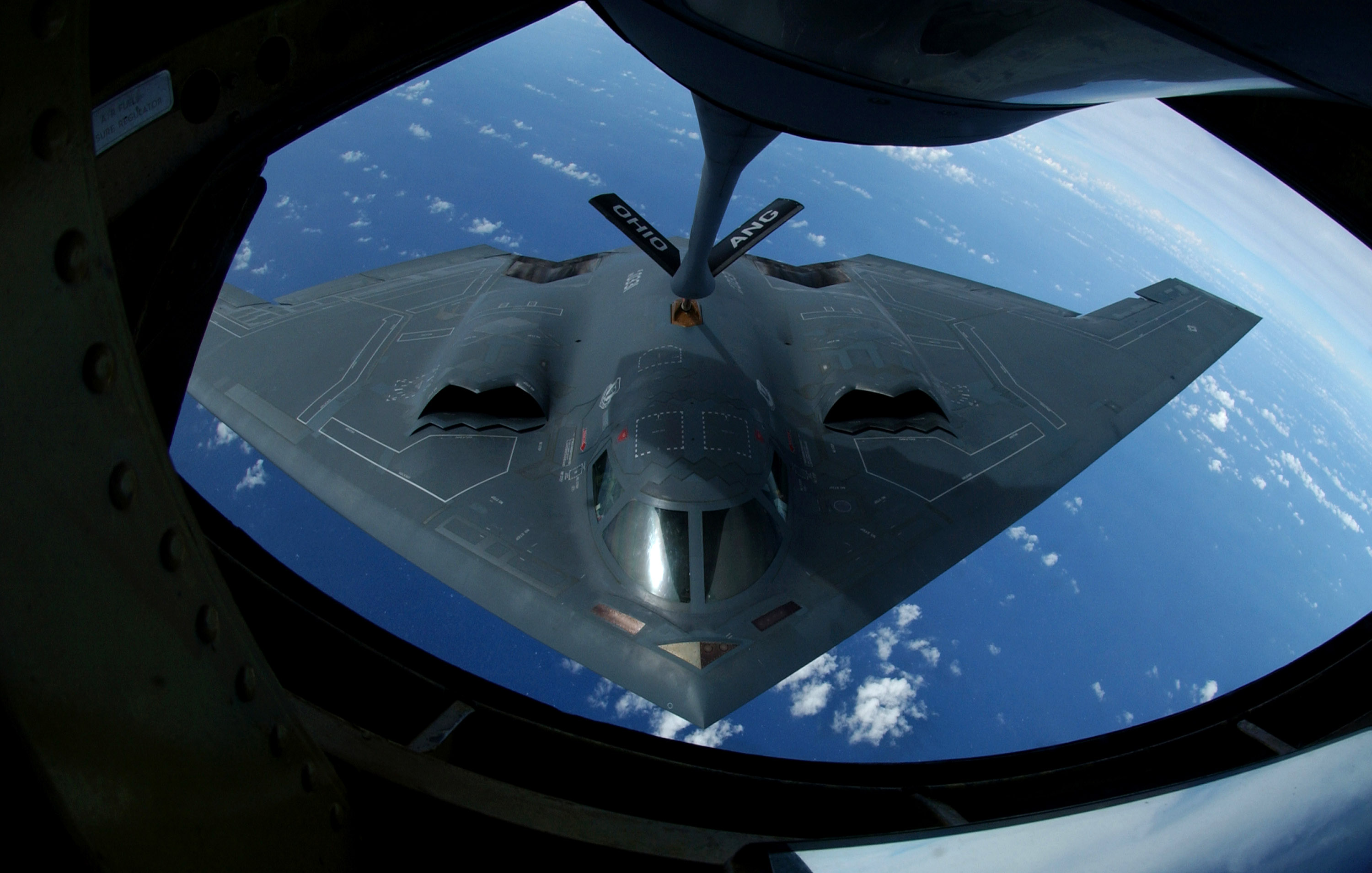 A KC-135 Stratotanker refuels a B-2 Spirit Nov. 20 over the Pacific Ocean. The B-2 and KC-135 are deployed to Andersen Air Force Base, Guam, to support U.S. Pacific Command's continuous bomber presence and theater security package operations. The KC-135 is assigned to the from the 121st Refueling Wing from Rickenbacker International Airport at Columbus, Ohio. The B-2 is assigned to the 509th Bomb Wing from Whiteman AFB, Mo. (U.S. Air Force photo/Senior Airman Brian Kimball)